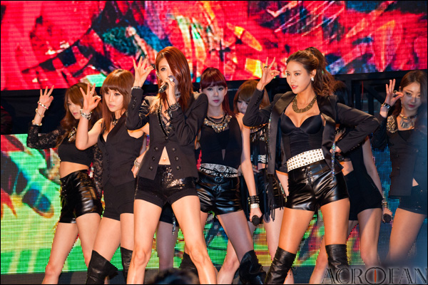 Nine Muses at mini album WILD launching showcase event, in May 2013